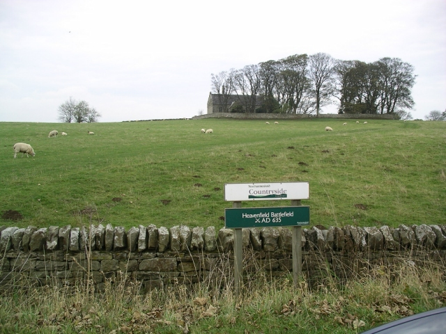 Heavenfield Battlefield. Site of Heavenfield Battle AD 635.